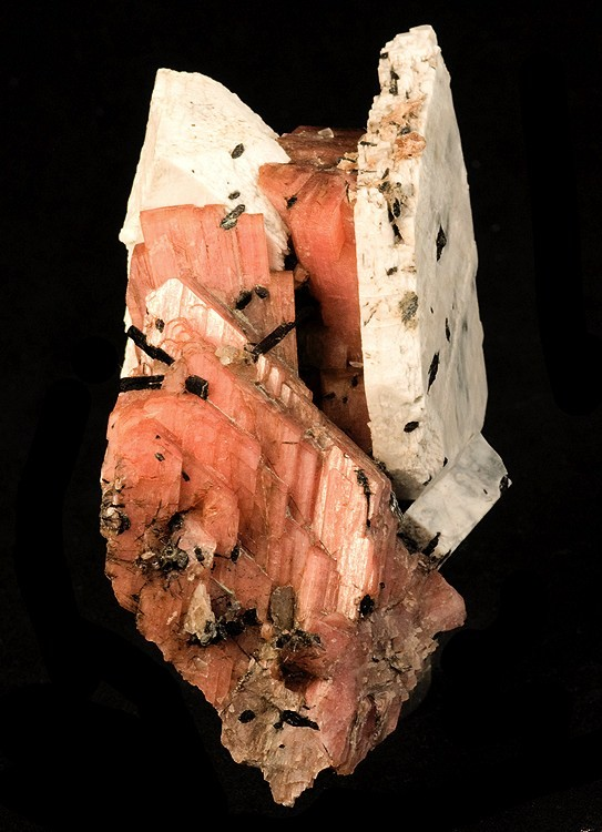 Sérandite, Albite, Aegirine, Leucophanite Locality: Poudrette quarry (Demix quarry; Uni-Mix quarry; Desourdy quarry), Mont Saint-Hilaire, Rouville RCM, Montérégie, Québec, Canada (Locality at ) Size: 8.9 x 4.7 x 4.4 cm. A striking and classic specimen of two, intergrown, highly lustrous, superbly crystallized, salmon-colored serandite crystals aesthetically framed by starkly contrasting tabular and blocky albite crystals. This excellent specimen is nicely accented with lustrous, black aegirine needles to 2.0 cm and a single, very well-placed front and center, gemmy, amber, 5 mm leucophanite crystal. This is a fairly large, dramatic and highly desirable combination specimen with serandite from this famed locale. Ex. Larry Conklin specimen.